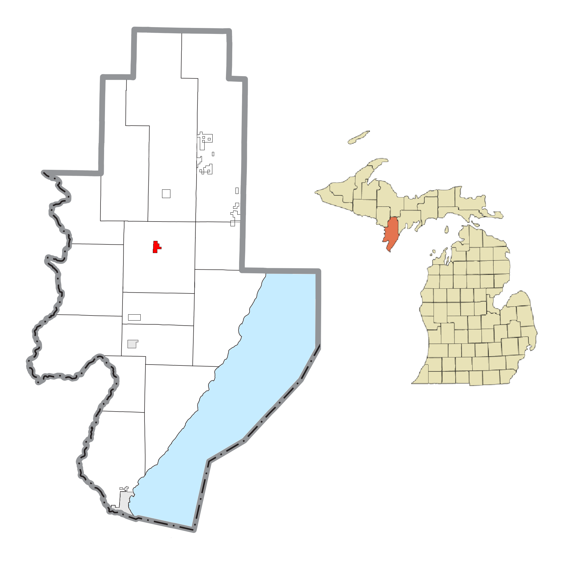 Carney, MI